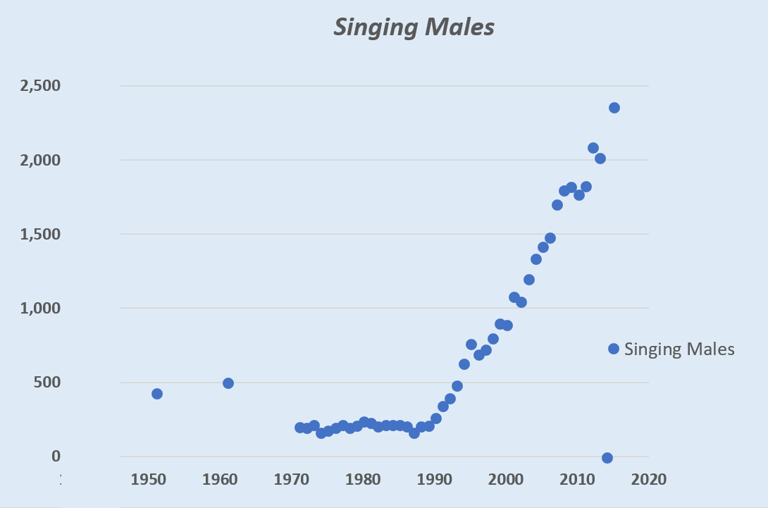 An image of the graphical representation of the population of Kirkland's warbler over time